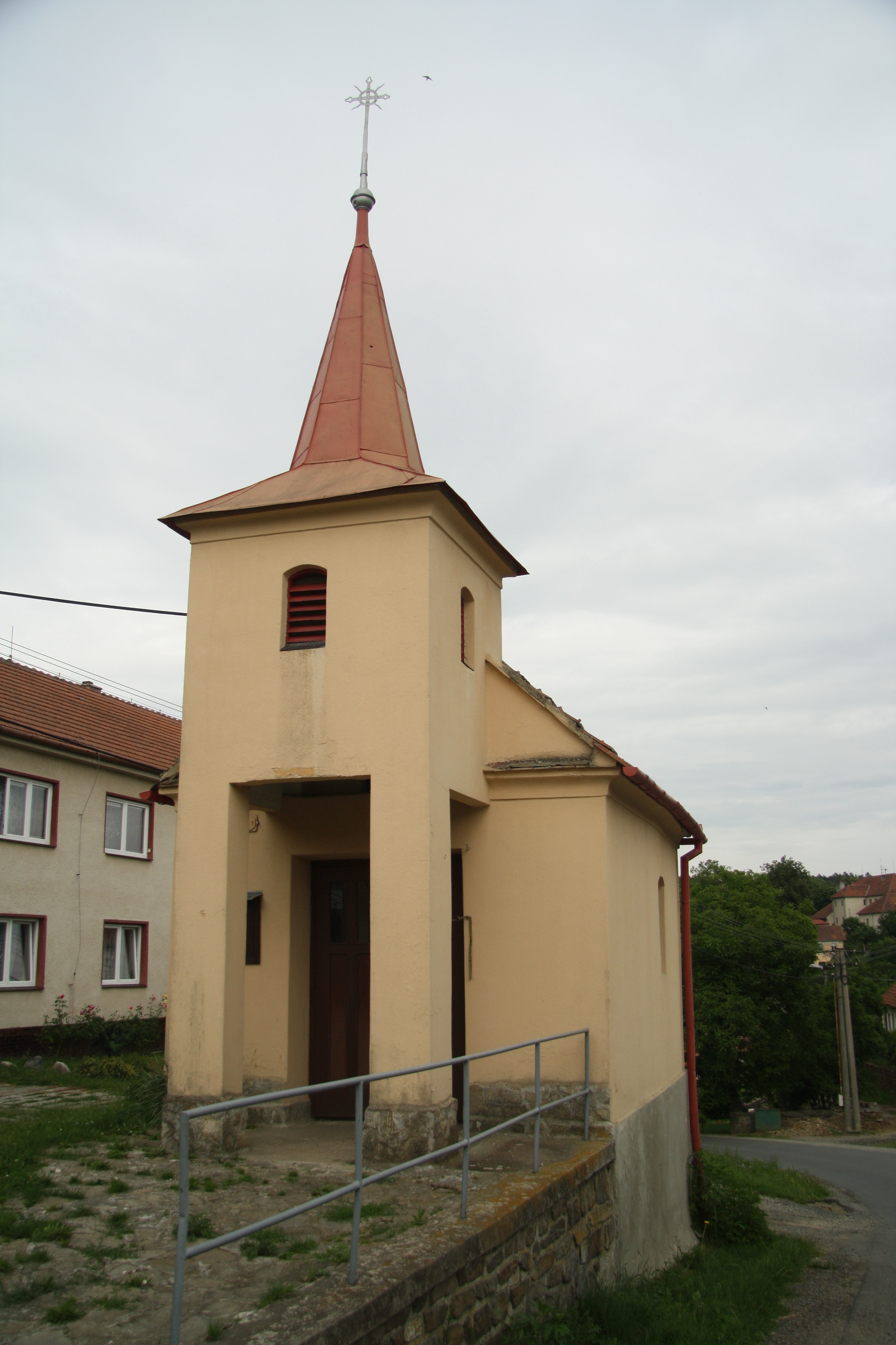 Overview of Chapel of Saint Medard in Sudice, Třebíč District.